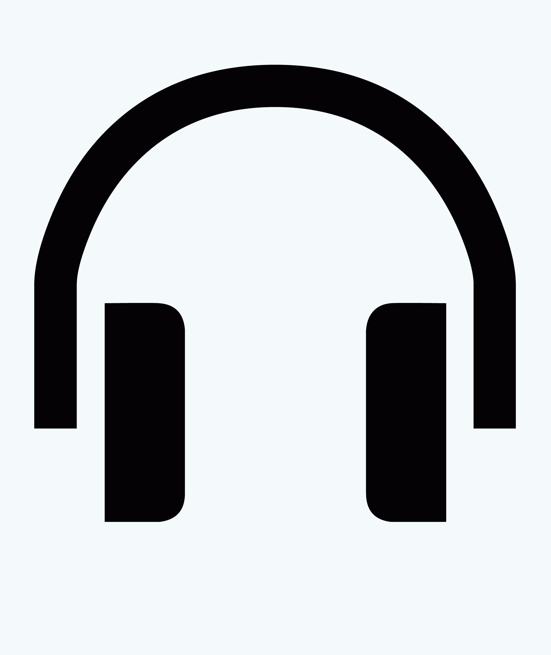 Headphone Pictogram